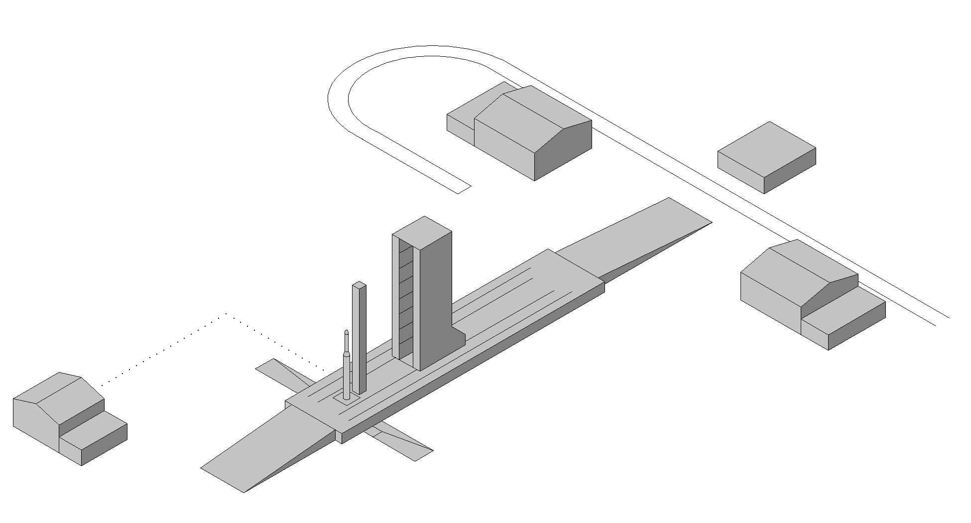 Simorgh Launch Pad at Imam Khomeini Space Center Srpskohrvatski / српскохрватски: Lansirna rampa za rakete-nosače Simorg u Svemirskom centru Imam Homeini